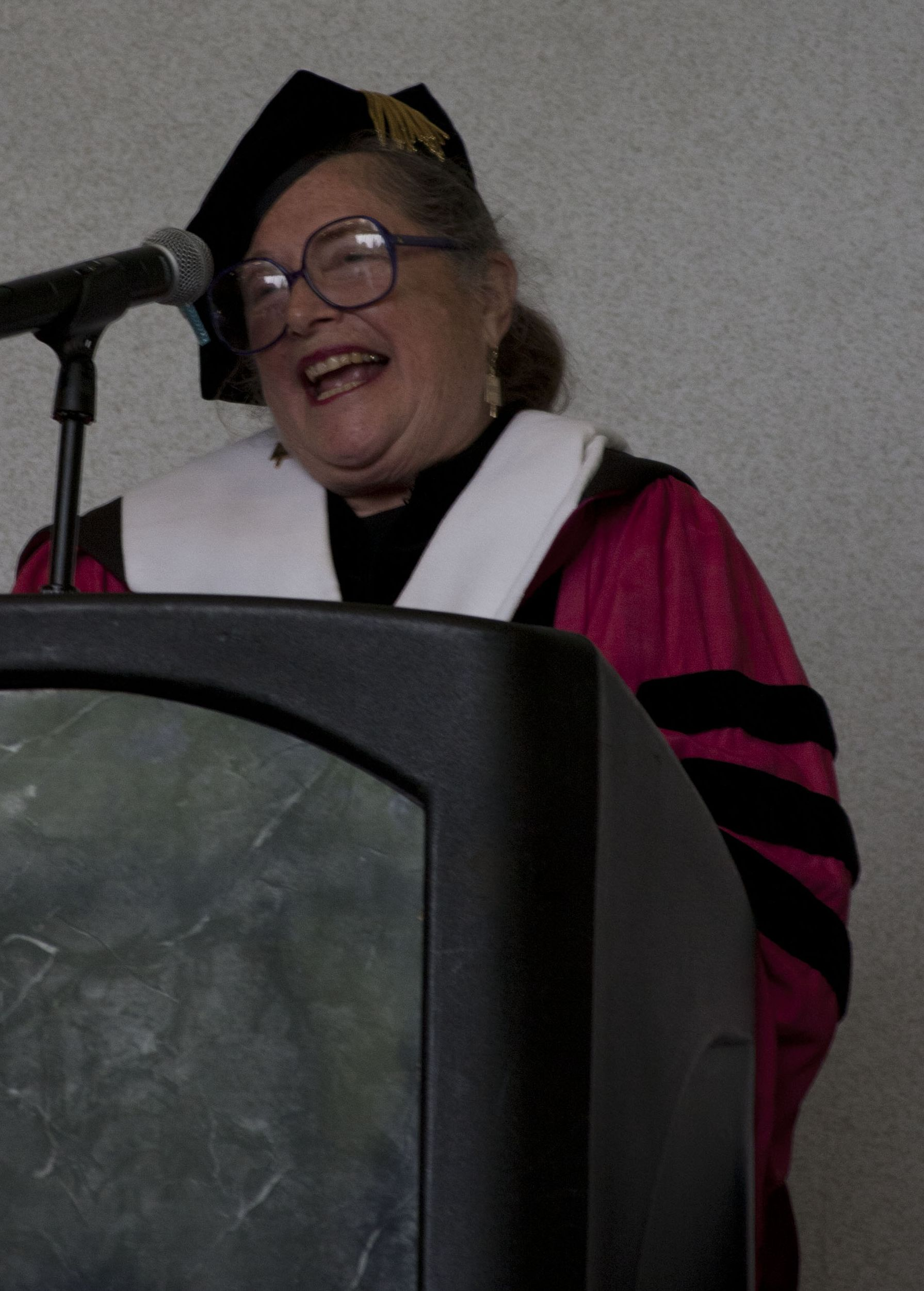 Religious studies scholar Wendy Doniger giving the commencement speech at Chicago's Shimer College in 2012.